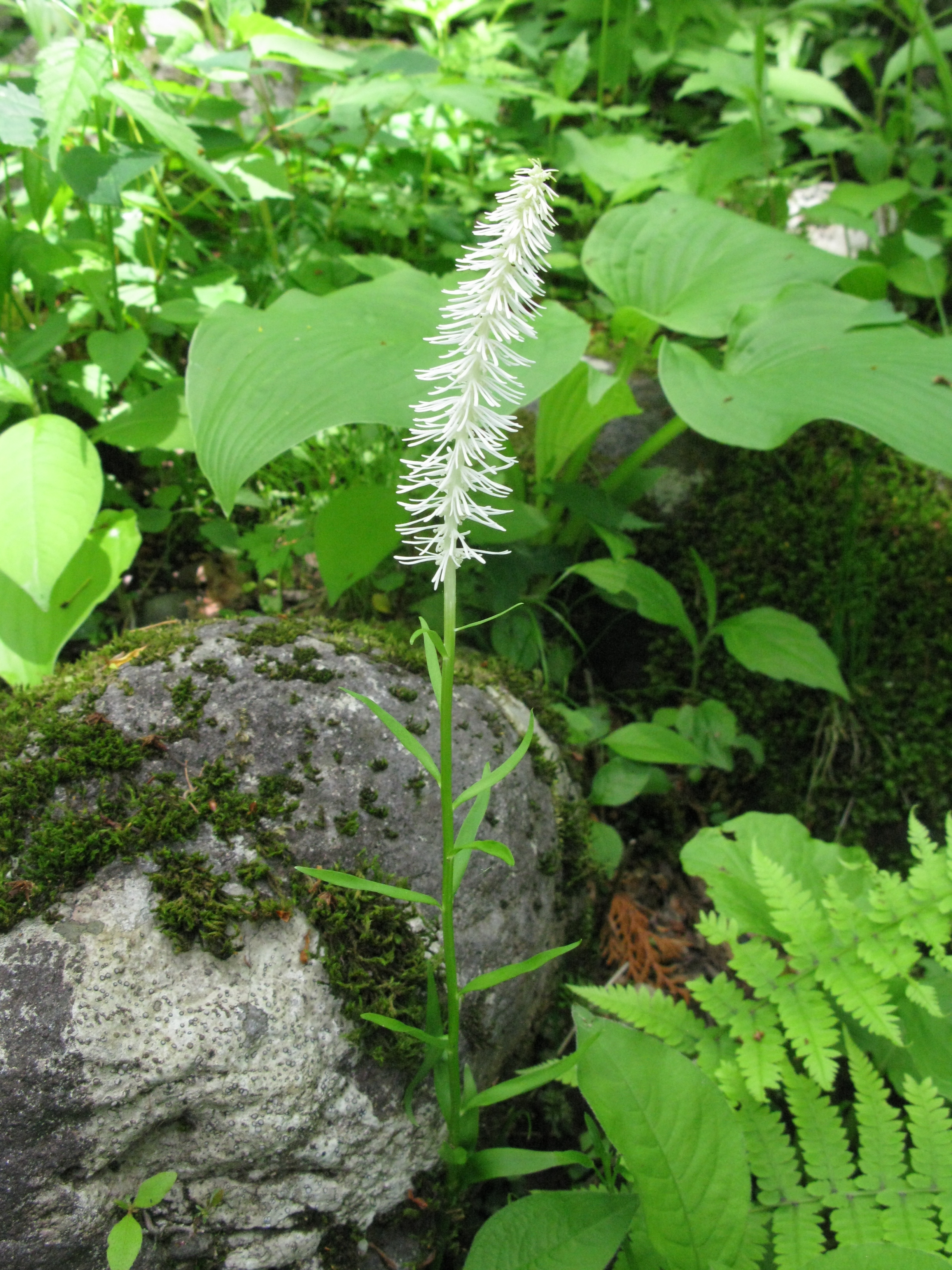 Chionographis japonica, Botanical Gardens, Nikko, Graduate School of Science, The University of Tokyo, Tochigi pref., Japan